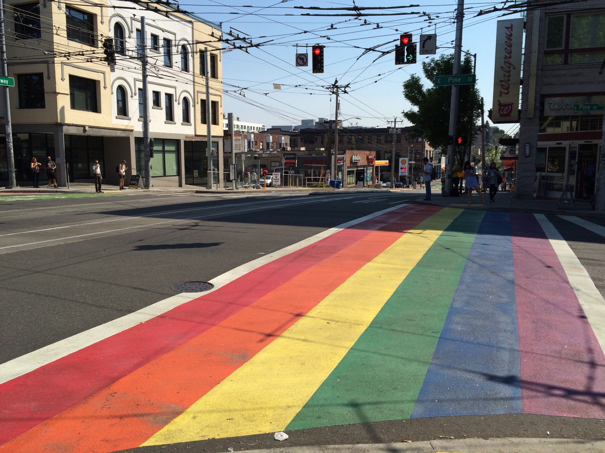 One of eleven permanent rainbow crosswalks in the Pike-Pine Corridor neighborhood of Seattle’s historically-gay Capitol Hill district. This one crosses the west side of E Pine St at Broadway. Photo taken in August 2015, about two months after the crosswalk was originally painted.